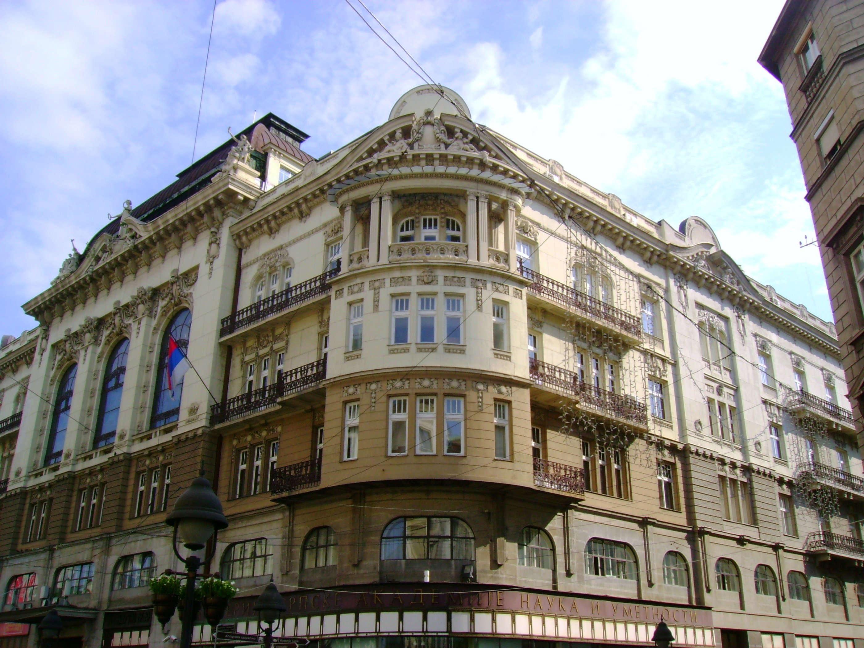 The building of the Serbian academy of sciences and arts, built in 1923-1924, by the plans of 1912 made by Dragutin Đorđević and Andra Stevanović, in style of academism with elements of secession.